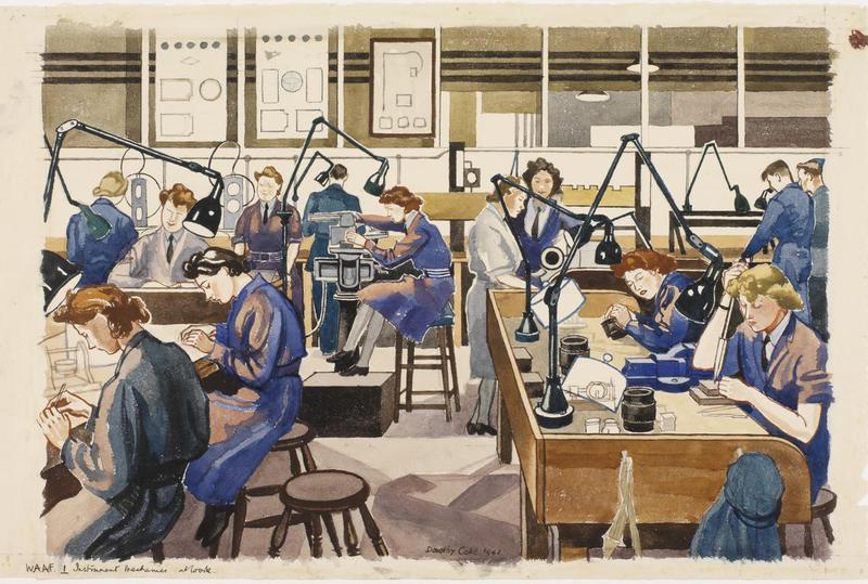 WAAF women at work in a workshop, seated at benches lit by anglepoise lamps.